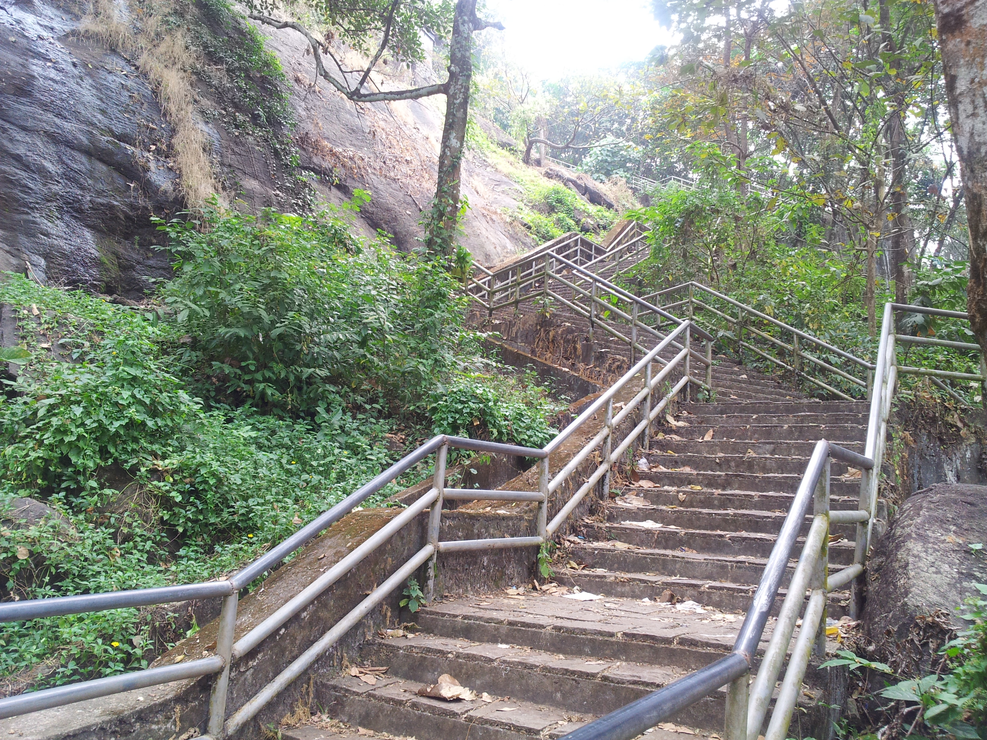 Areekkal Waterfalls from Koothattukulam, Ernakulam District, Kerala